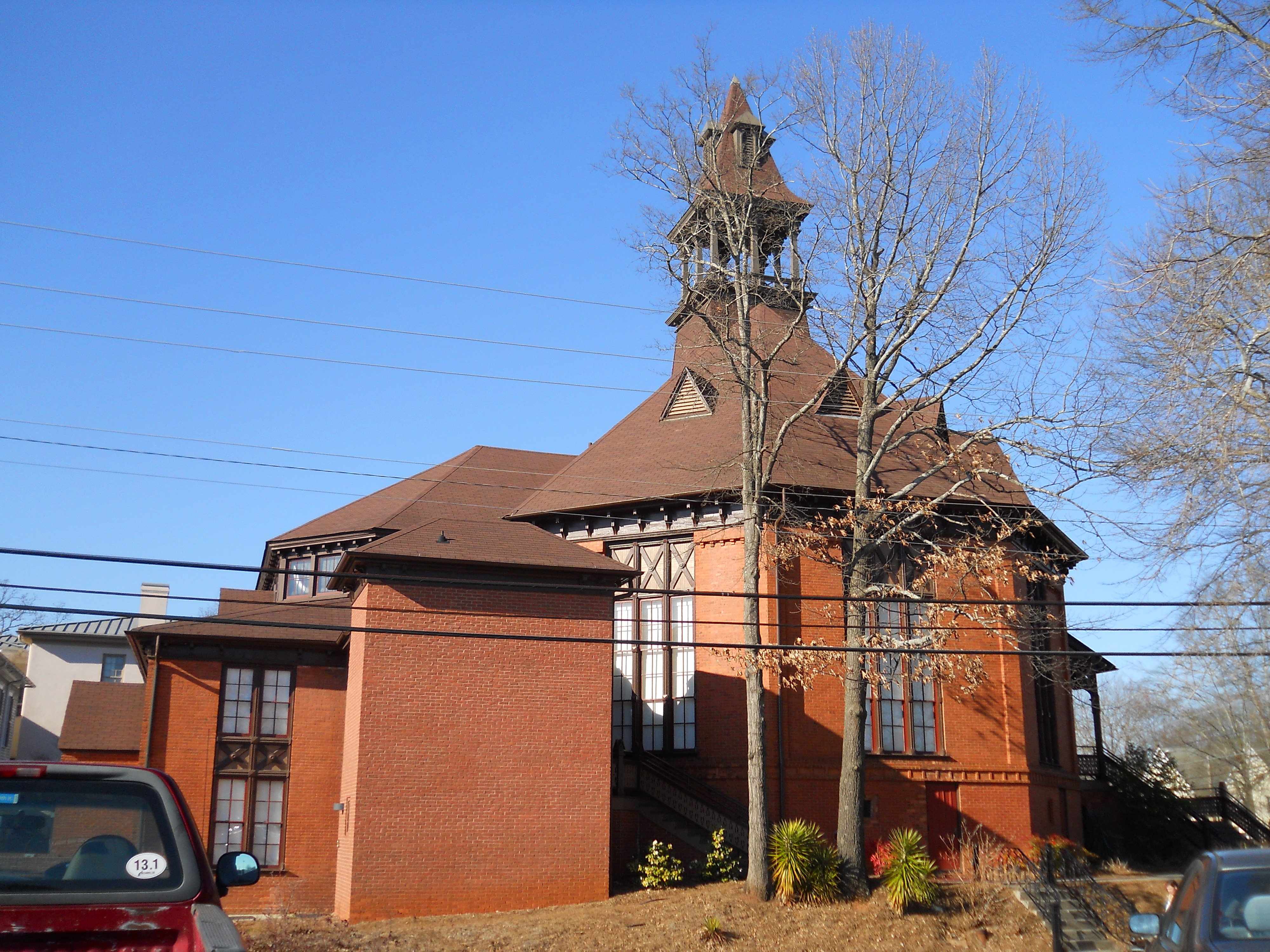 Seney Stovall Chapel